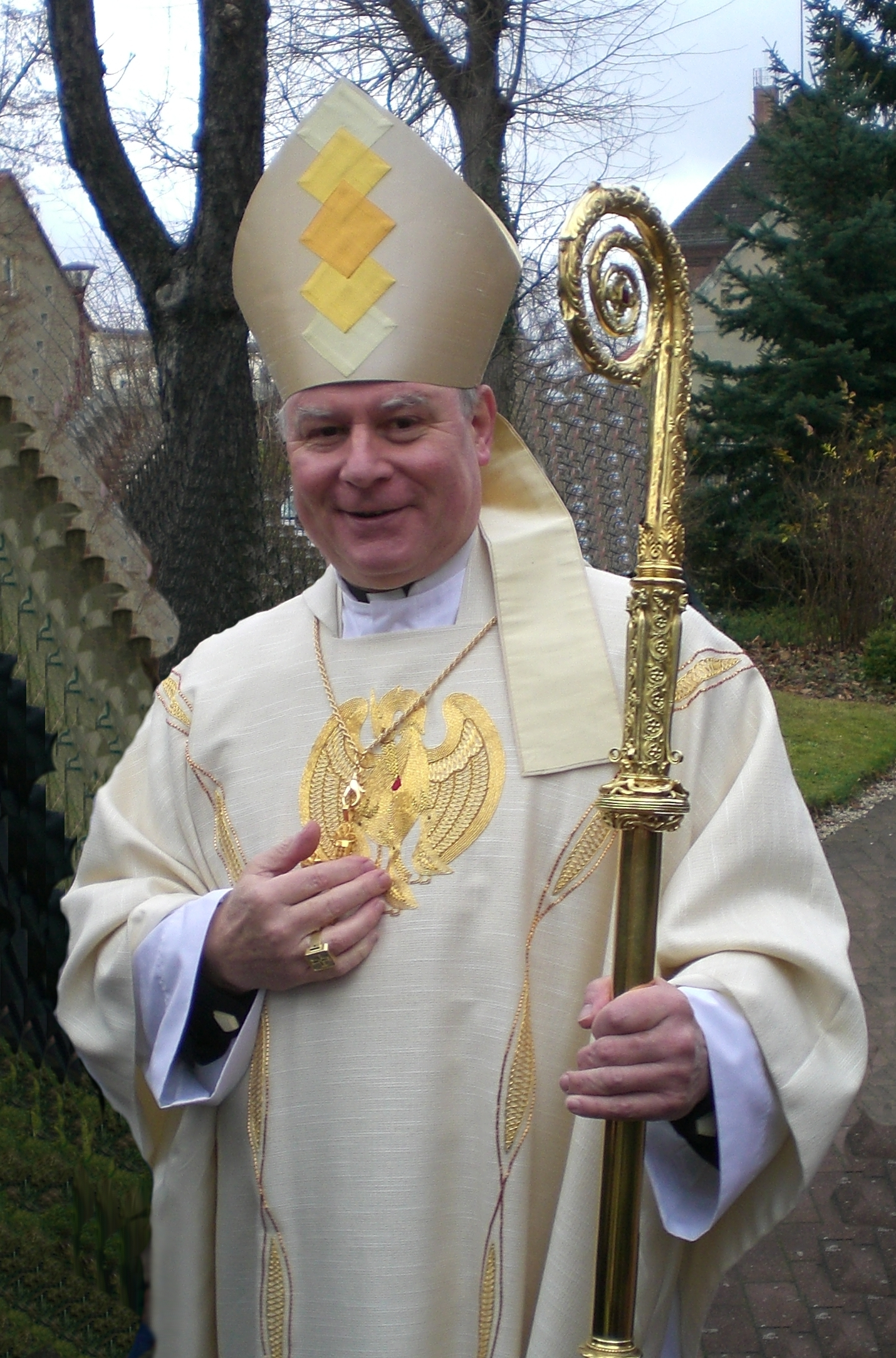 Bishop Konrad Zdarsa of Roman Catholic Diocese of Görlitz; here in Finsterwalde